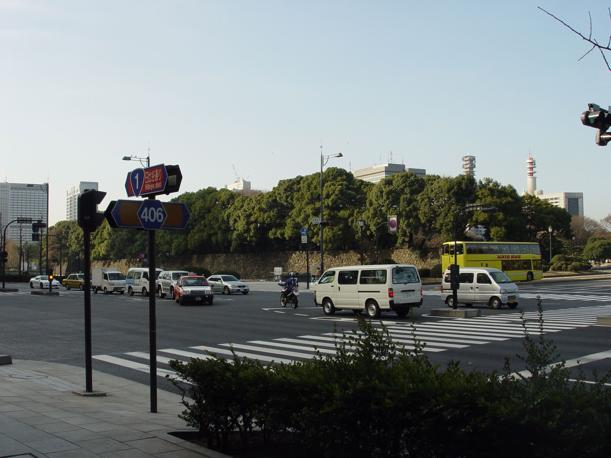 Route 1 and Tokyo route 406